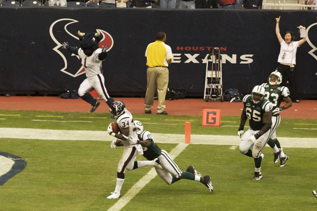 Safety Dominique Barber returns a fumble for a touchdown during the season opener against the New York Jets.